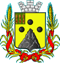 Coat of Arms of Narovchat, 1861